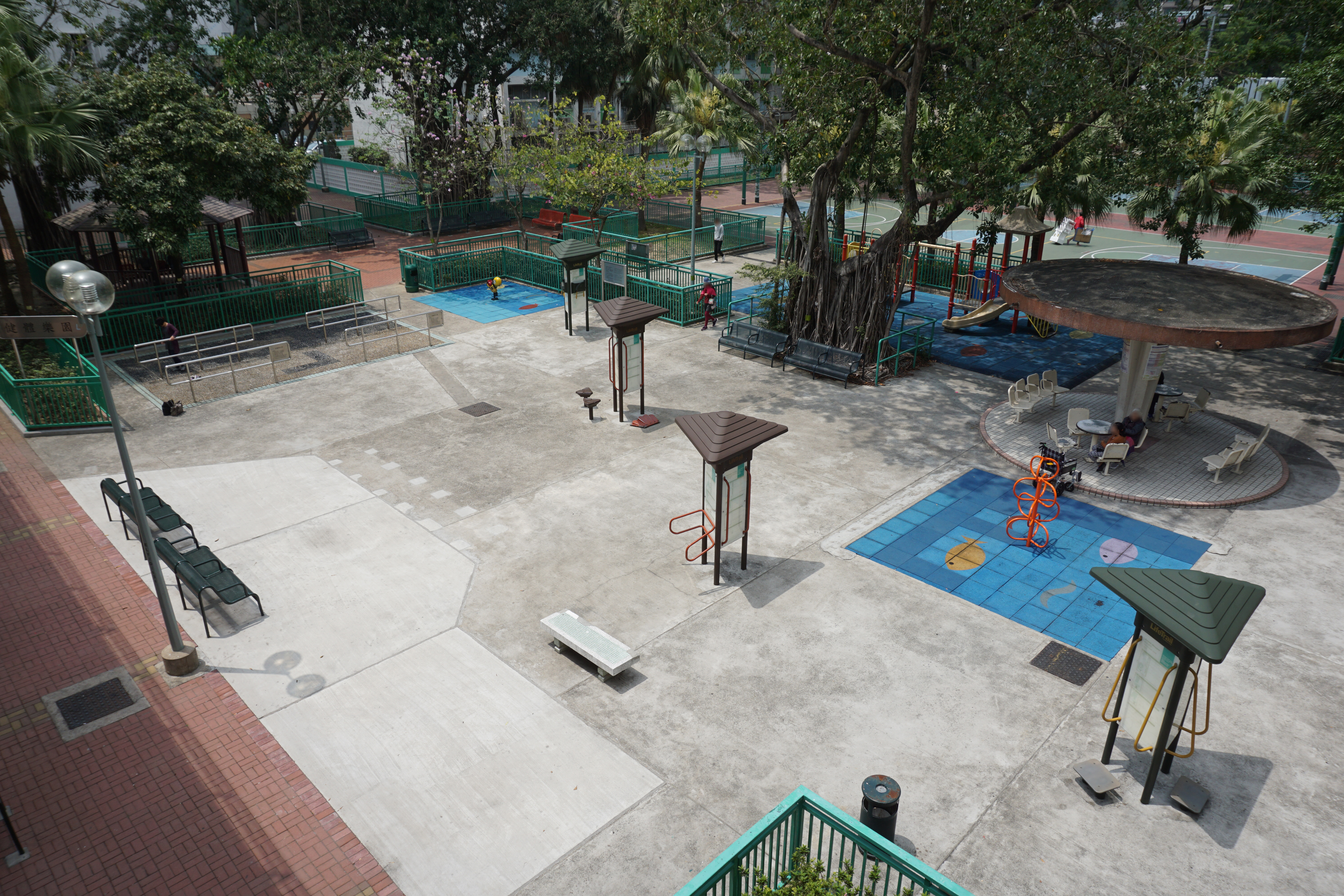 Lek Yuen Estate in Shatin, Hong Kong.